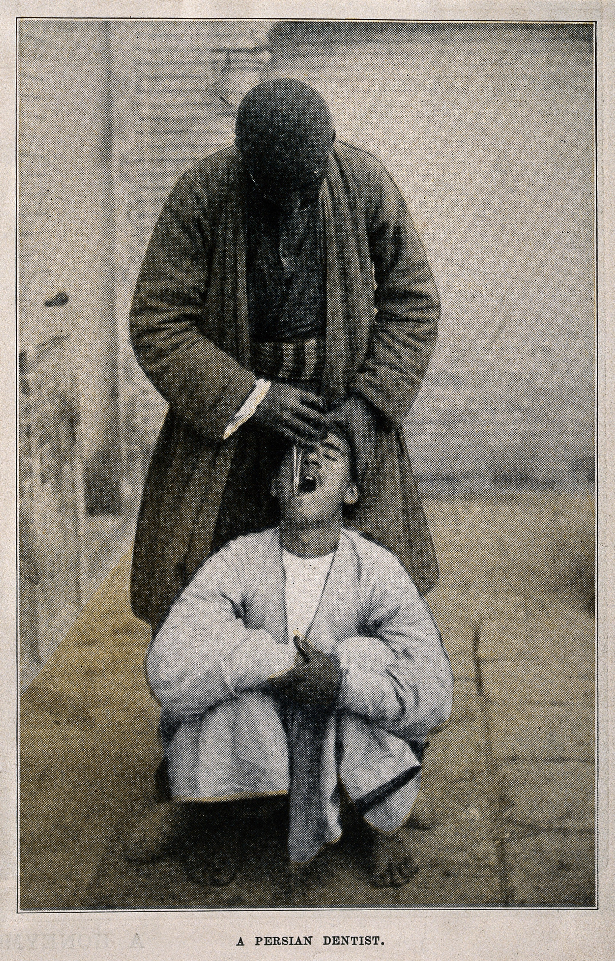 A Persian dentist extracting a tooth from a squatting patient. Halftone. Iconographic Collections Keywords: Dentists; DENTIST; PERSIAN; tooth-extraction